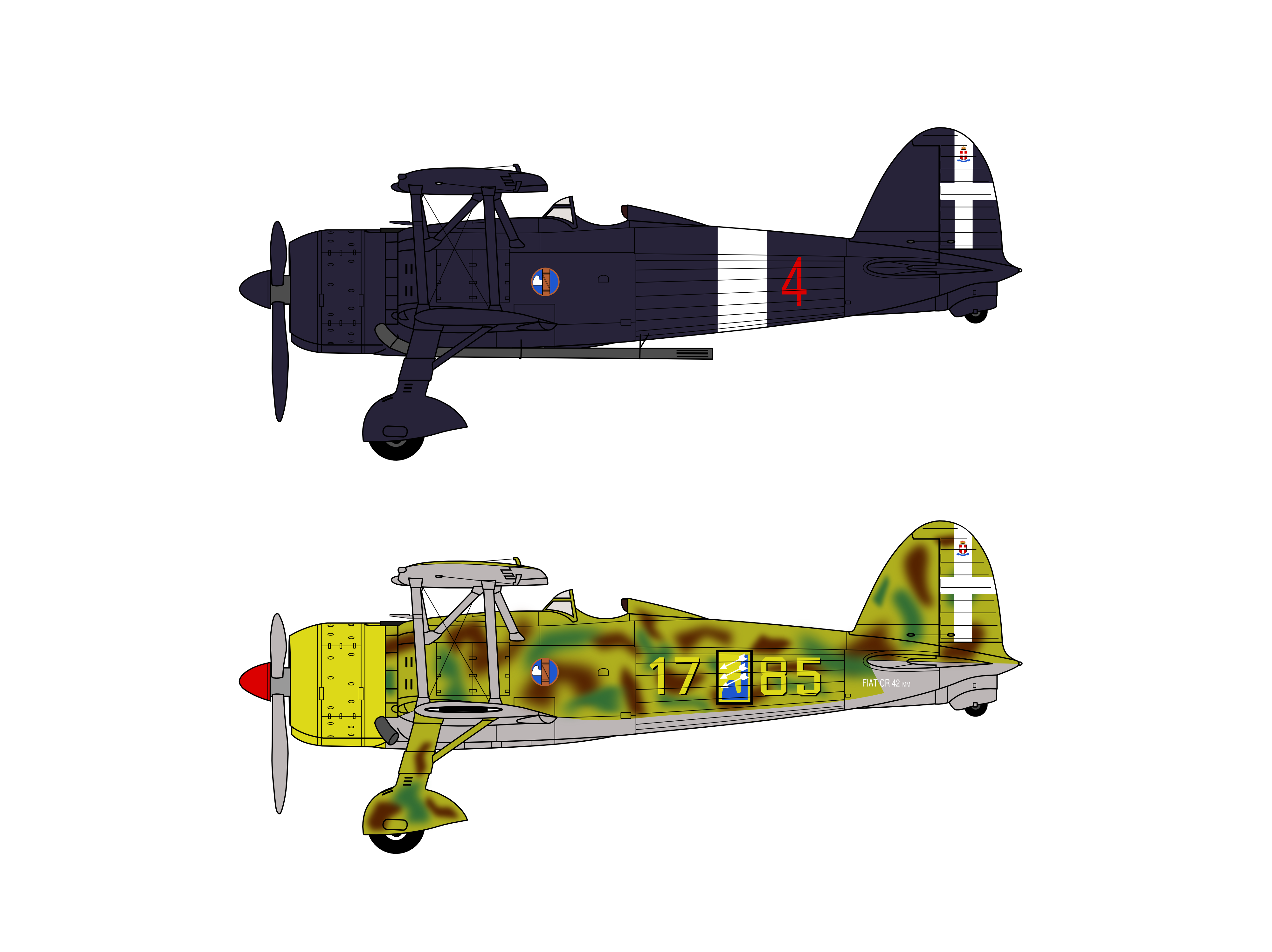 Two profiles of Italian World War II fighter biplane Fiat C.R.42 Falco. Top: A Fiat C.R.42CN (Caccia Notturna) night fighter; note the long exhaust flame dampeners. Bottom: A Fiat C.R.42 of the 85th Squadron, 18th Group, 3rd Wing Regia Aeronautica; transferred to the 56th Wing in autumn 1940 to take part in the operations of the Corpo Aereo Italiano in the skies of England during the Battle of Britain.